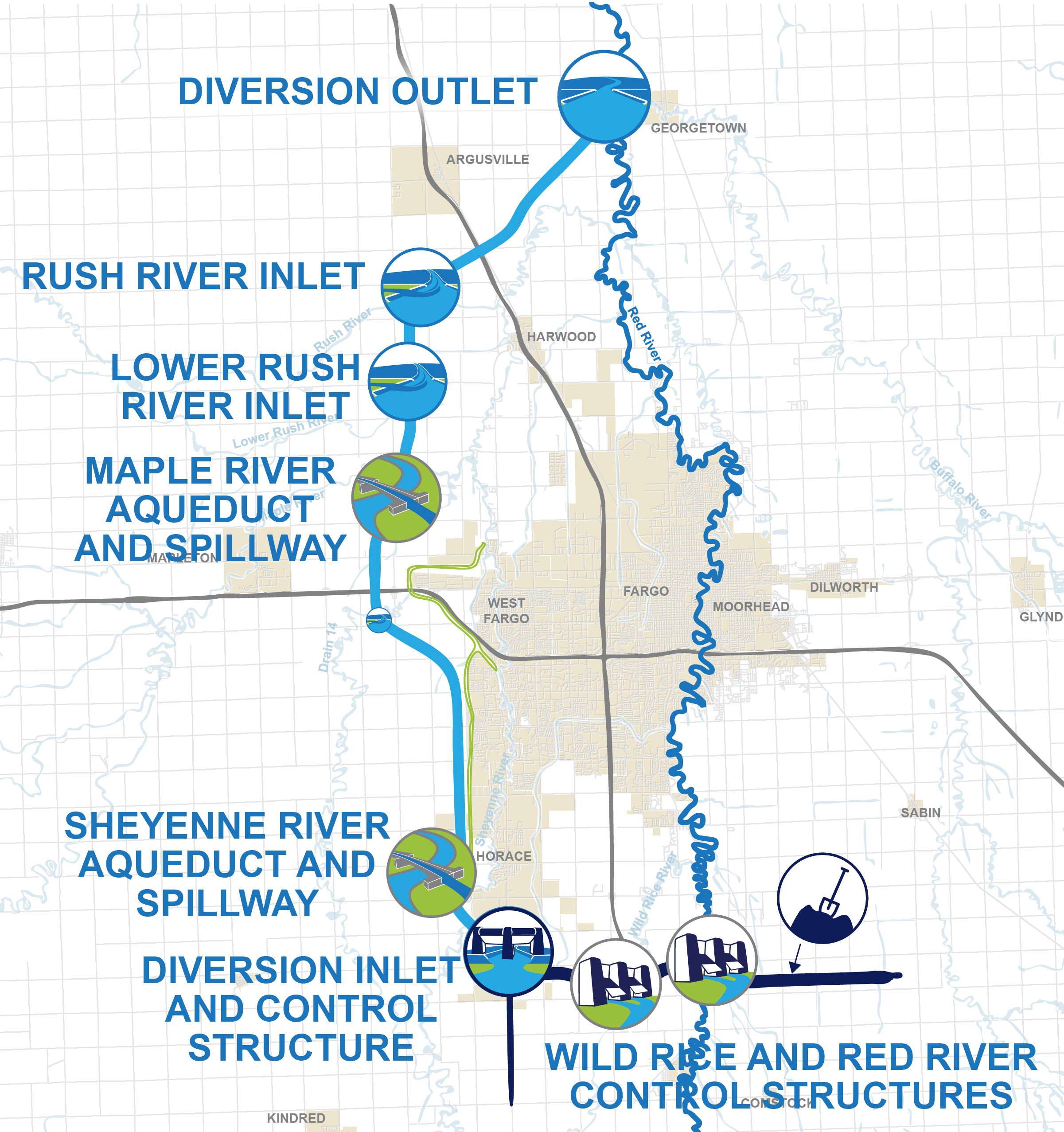 A map of the FM Area Diversion Project including some of the structures that will be built as part of the diversion channel and southern embankment.